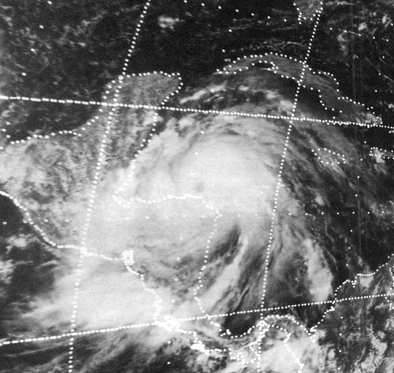 Category 2 Hurricane Fifi off the coast of Honduras on September 18, 1974